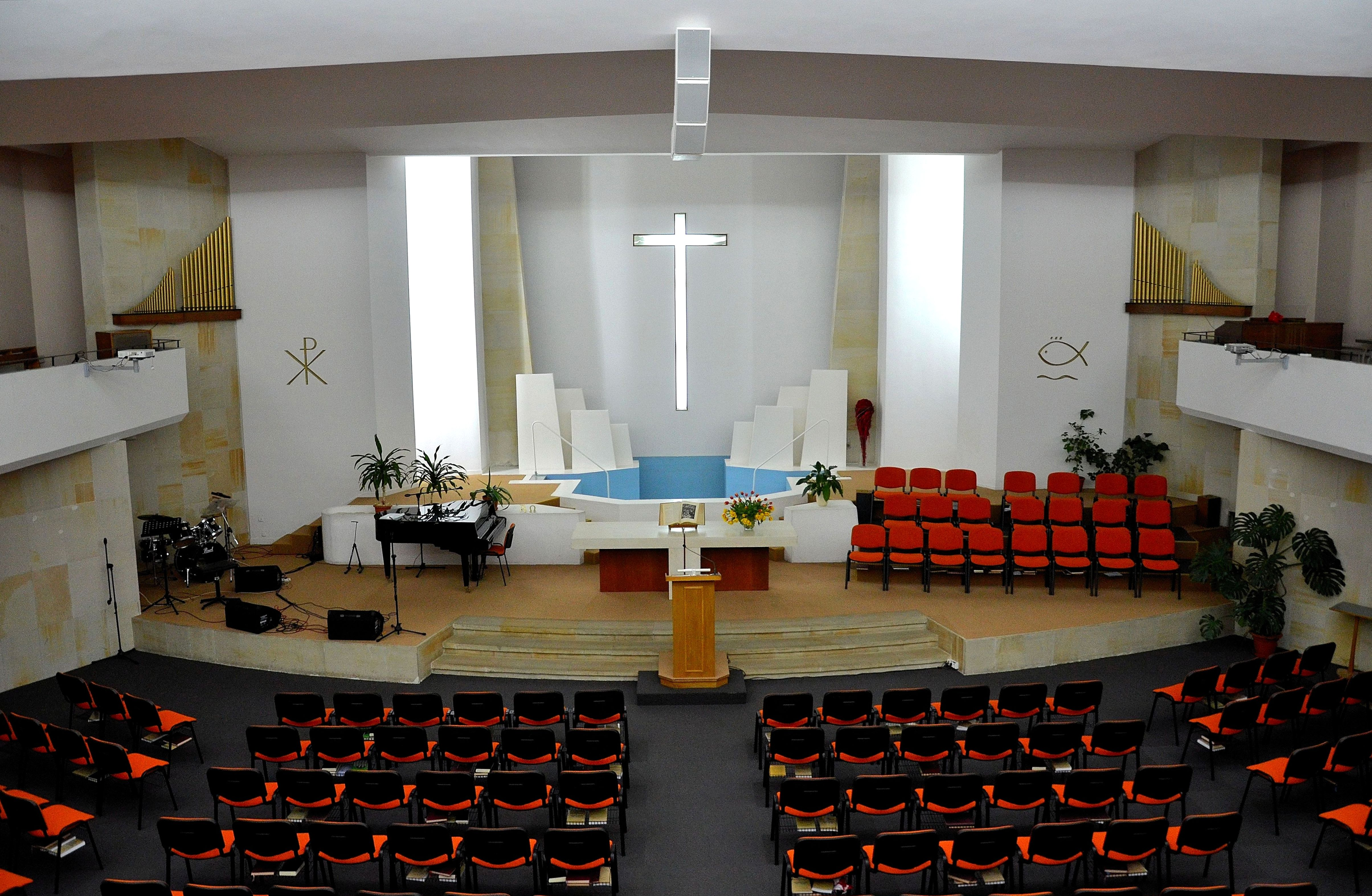 Interior of Baptist Chapel at 25 Waliców Str. in Warsaw